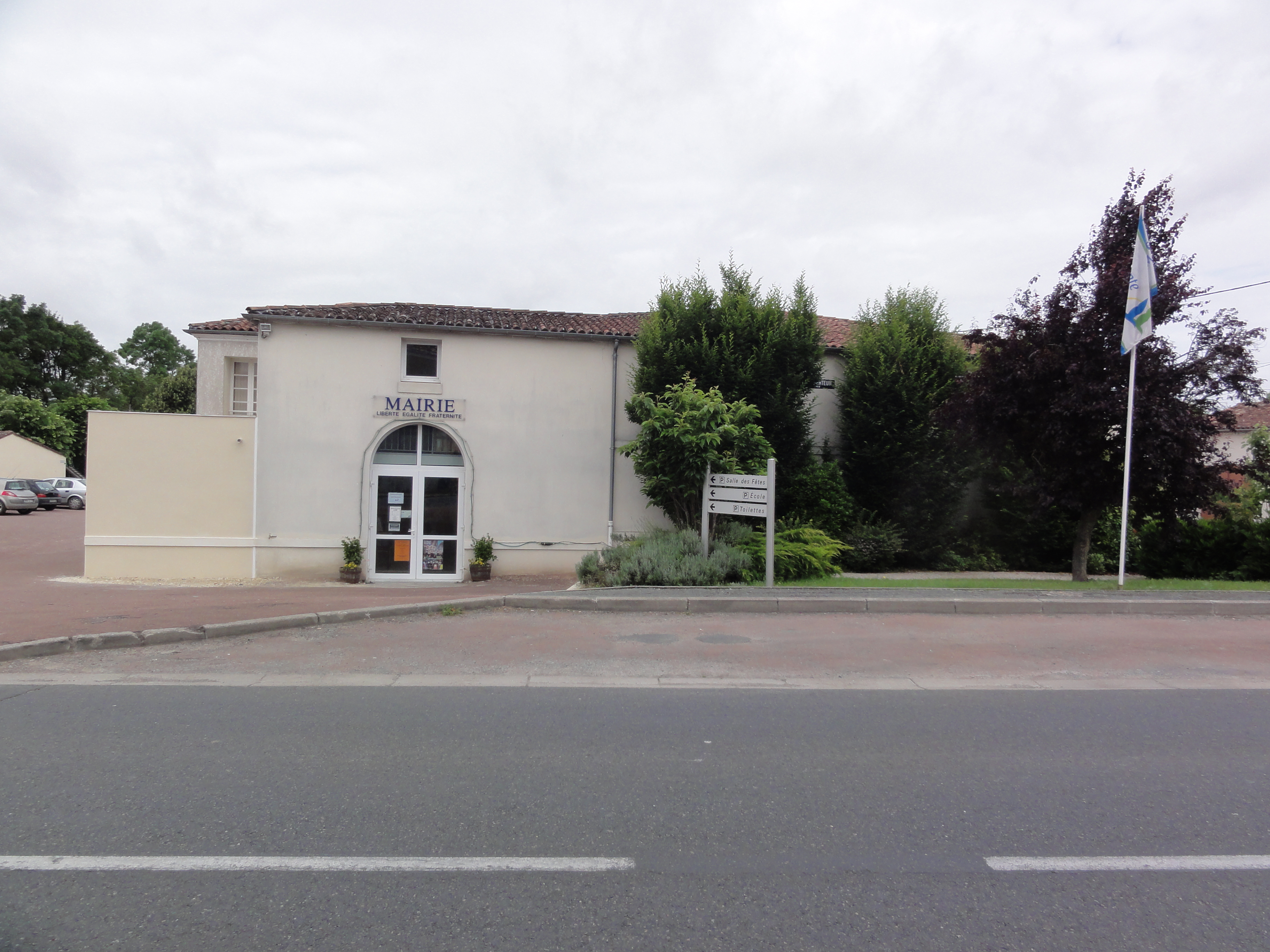 Les Églises-d'Argenteuil (Charente-Maritime) mairie